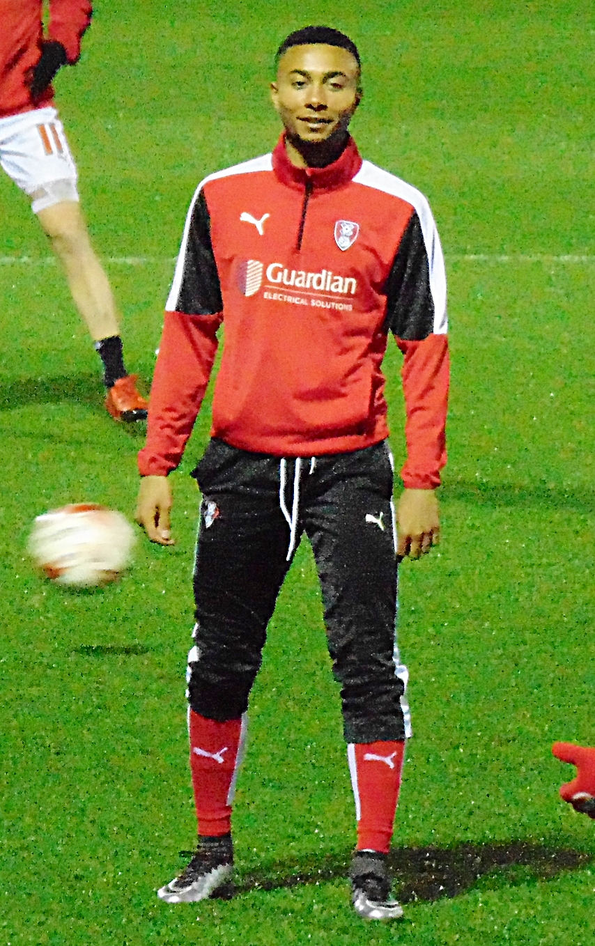 Rotherham v Boro (18)